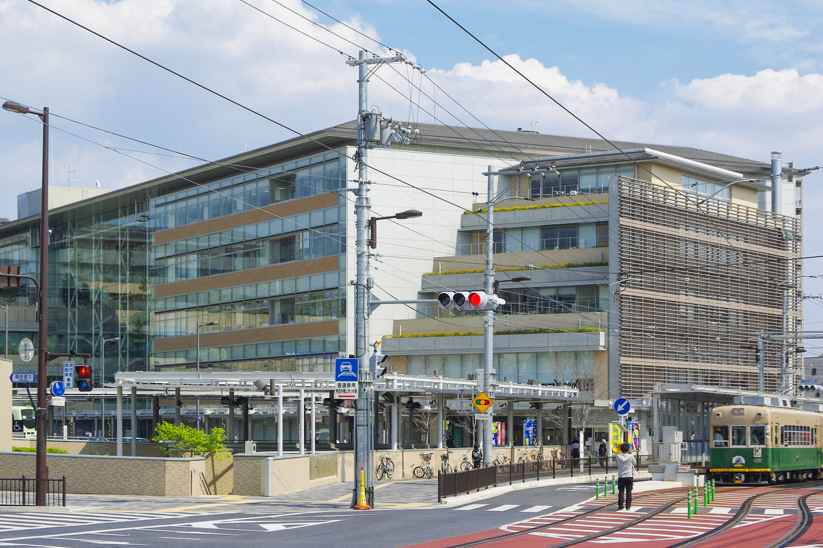 Photograph of the west site of Sansa Ukyo, including Ukyo Government Office Complex and Kyoto Municipal Transportation Bereau Headquarters, in Ukyo-ku, Kyoto, Kyoto Prefecture, Japan.